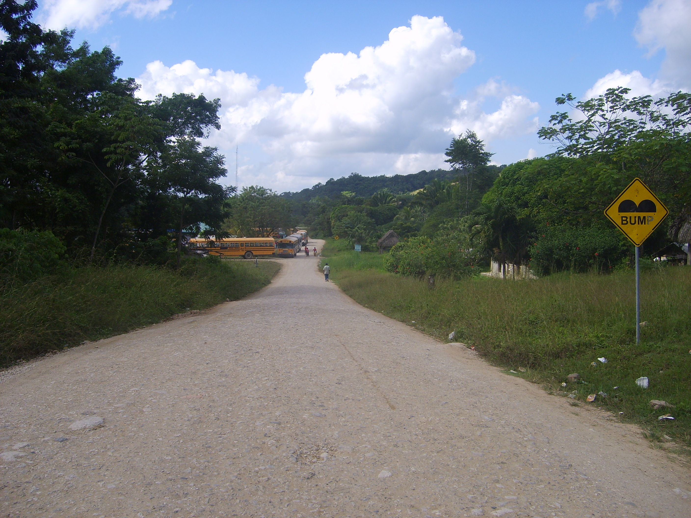 Unpaved section of Southern Highway in Belize, passing through the village of Indian Creek, about ½ km south of Nim Li Punit archaeological site.